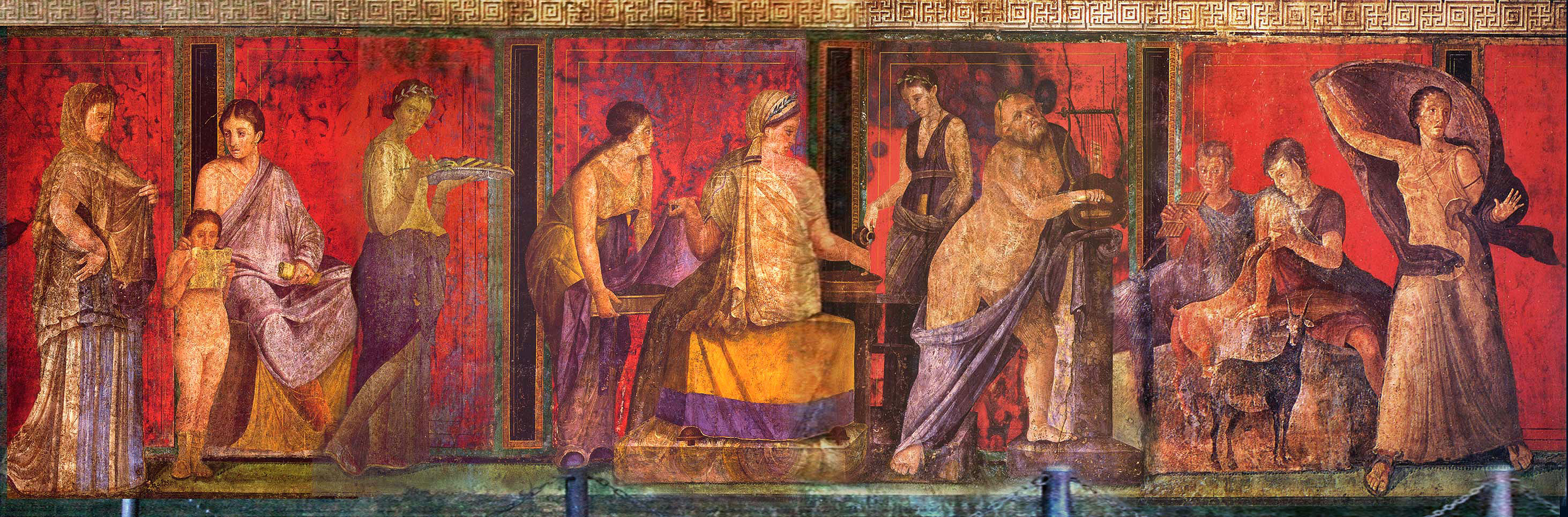 Fresco from the Sala di Grande Dipinto, Scenes in the Villa de Misteri (Pompeii).